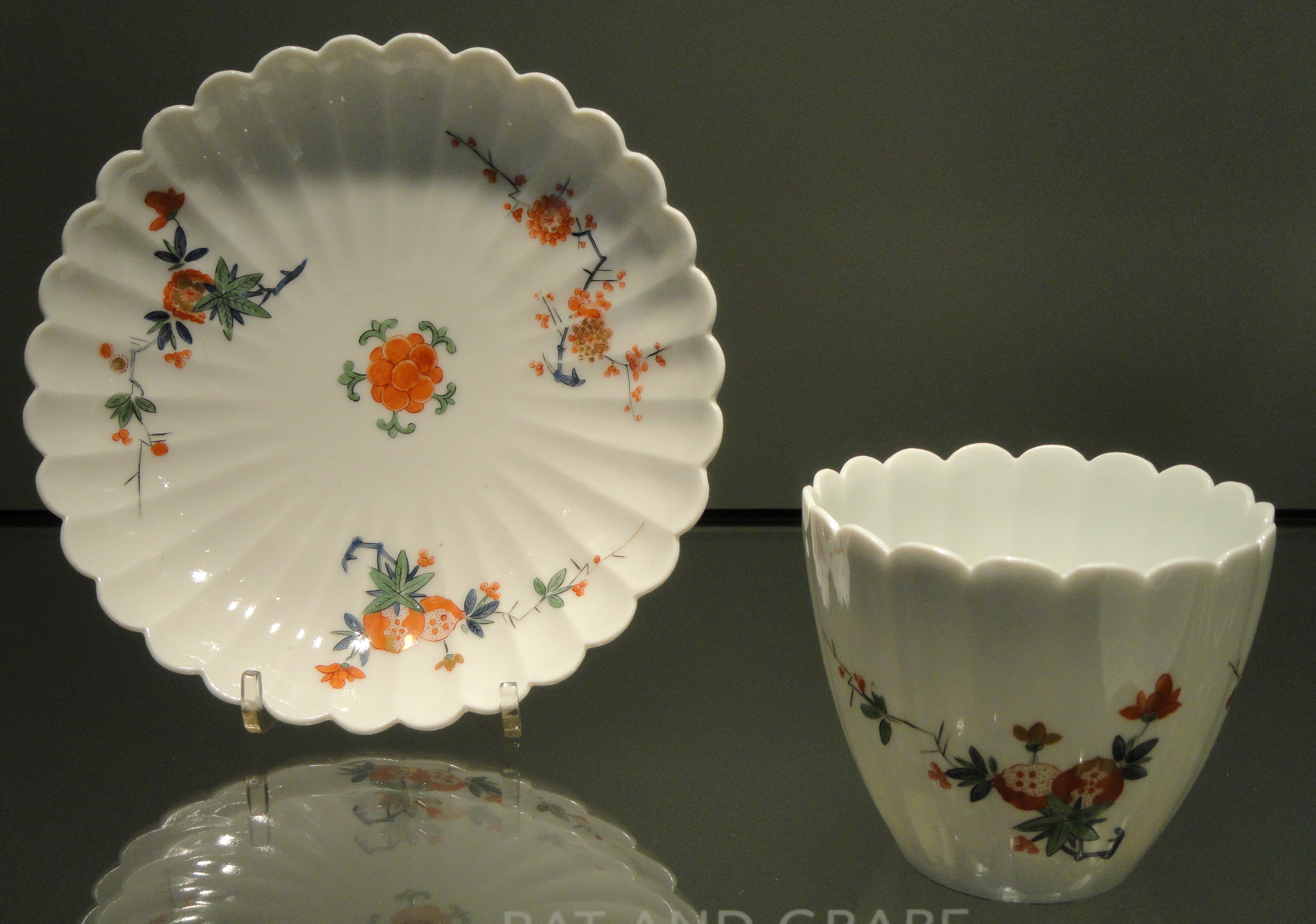 Exhibit in the Gardiner Museum, Toronto, Ontario, Canada. This artwork is in the public domain because the artist died more than 70 years ago.